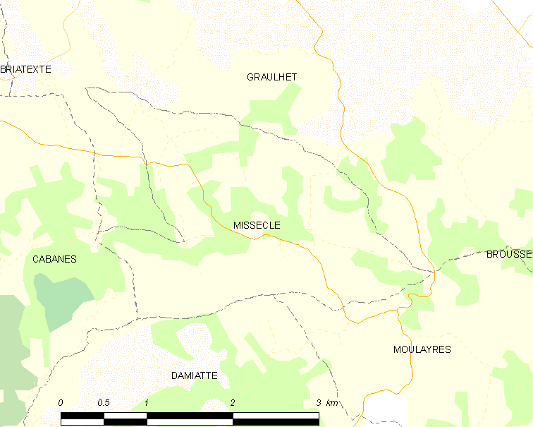 Map of French municipality Missècle